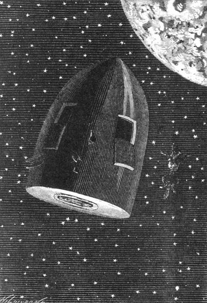 An illustration from Jules Verne's novel "Around the Moon."